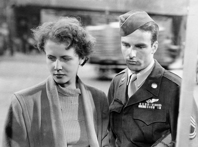 Cornell Borchers and Montgomery Clift in The Big Lift - cropped screenshot